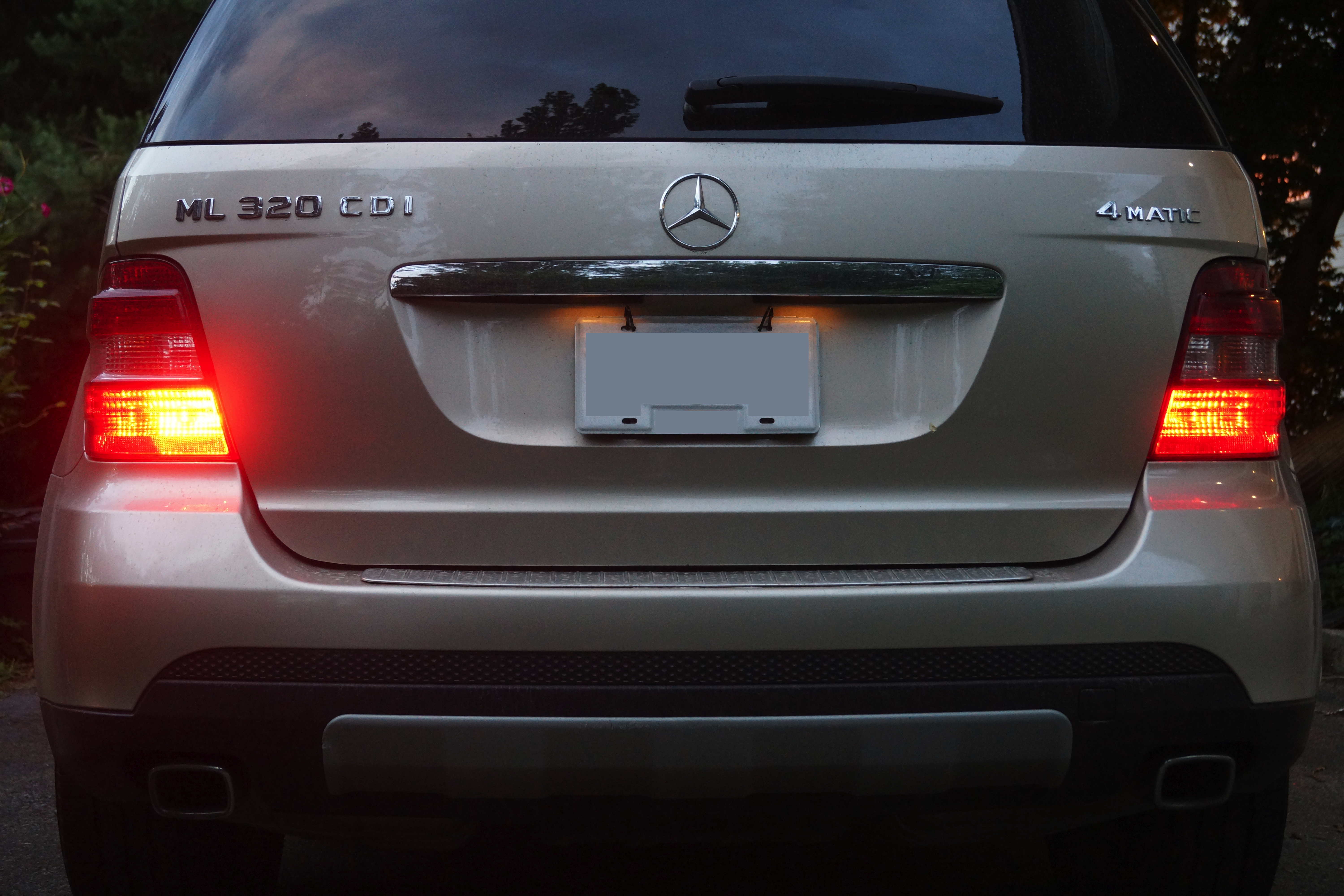 Rear Fog Light illuminated on Mercedes W164 ML 320 CDI 4matic - US Version